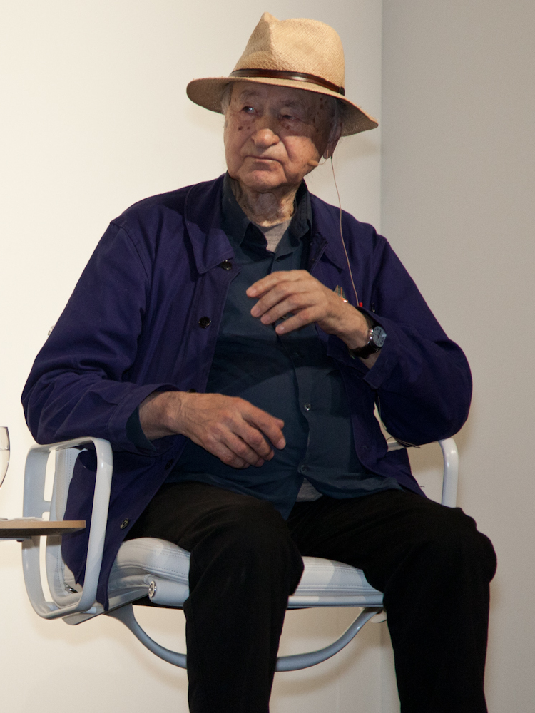 Olivier Garbay (left) and Jonas Mekas (right) at Art Basel Miami 2011